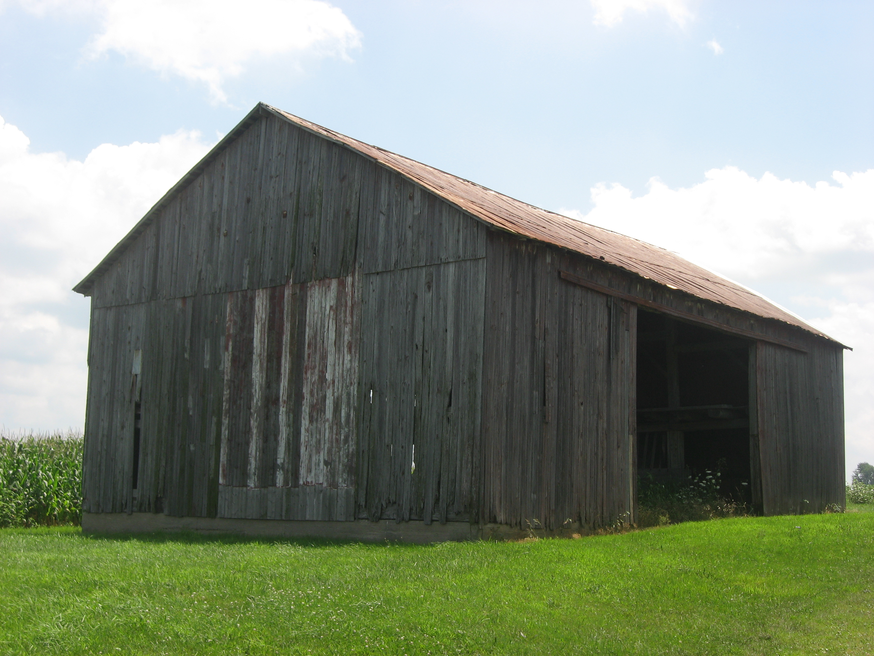 Front of the James and Sophia Clemens Barn, located at 467 Stingley Road northwest of Palestine in Liberty Township, Darke County, Ohio, United States. Together with a nearby house, the barn is listed on the National Register of Historic Places.